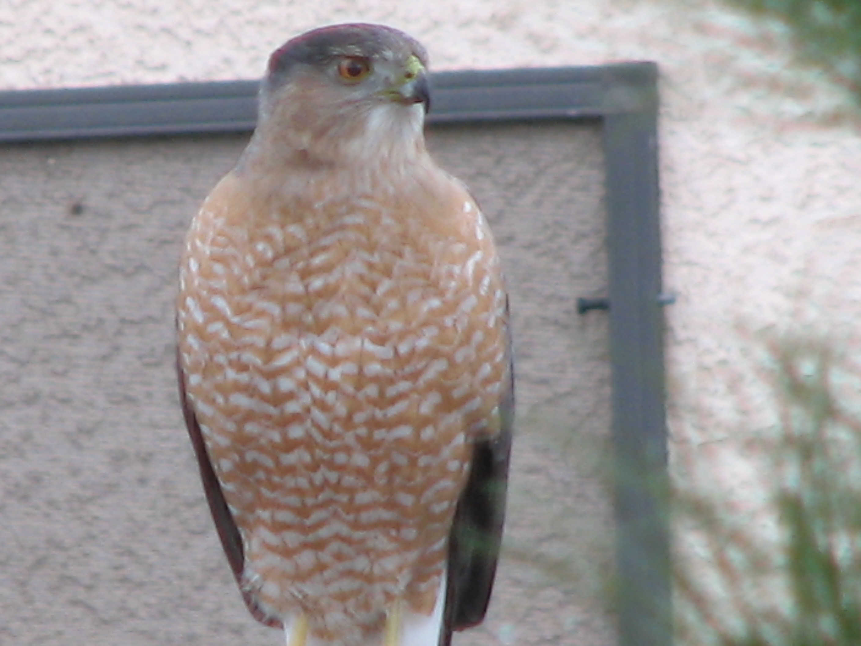 Adult Cooper's Hawk (Accipiter cooperii)